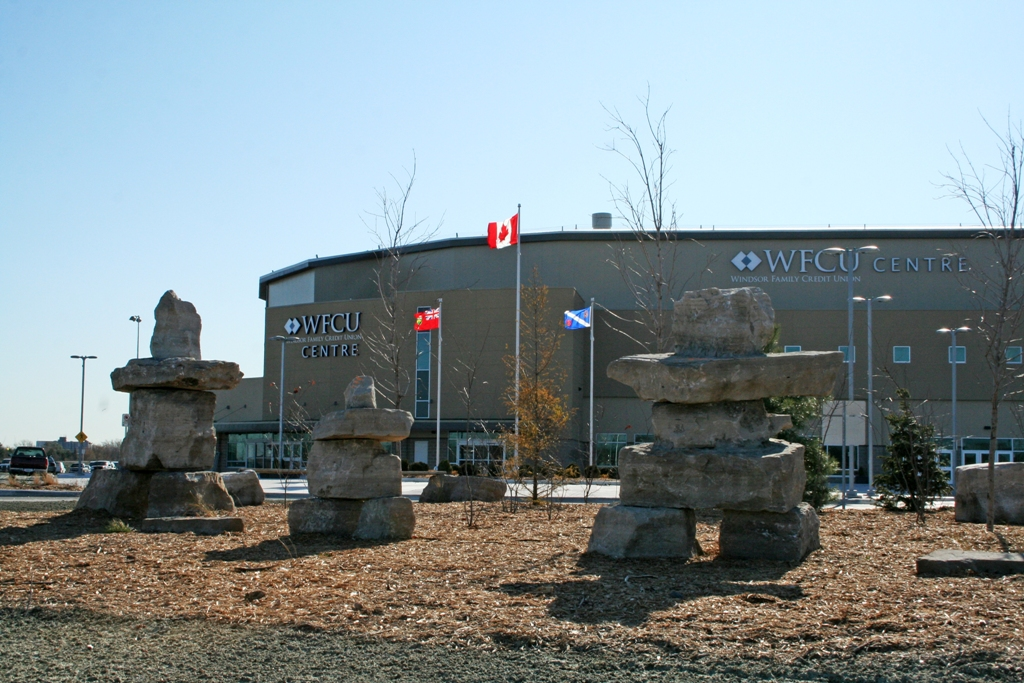 WFCU Centre exterior